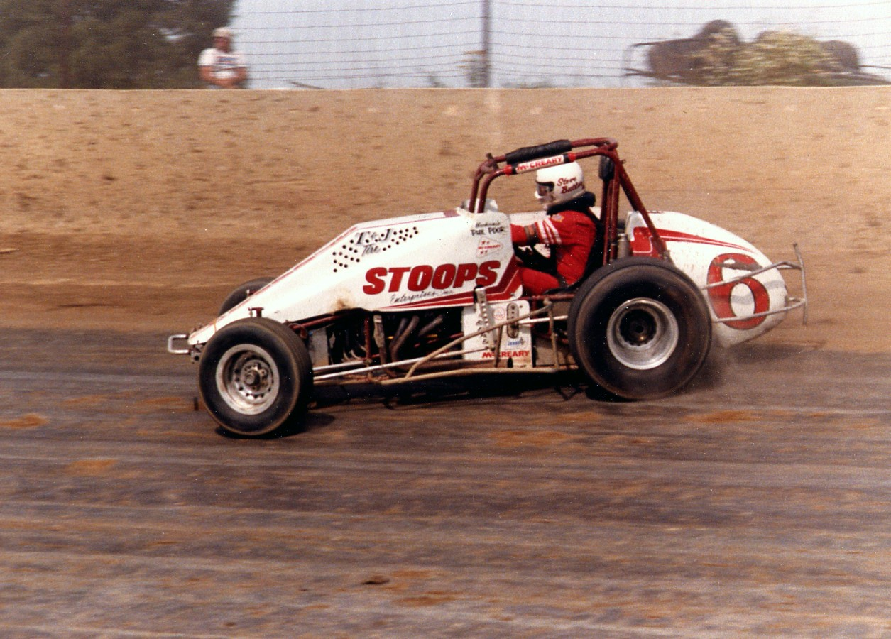 Steve Butler driving to his first USAC Sprint Car championship at the season's final race at Eldora. Shot is taken from inside turn 3, during feature race.